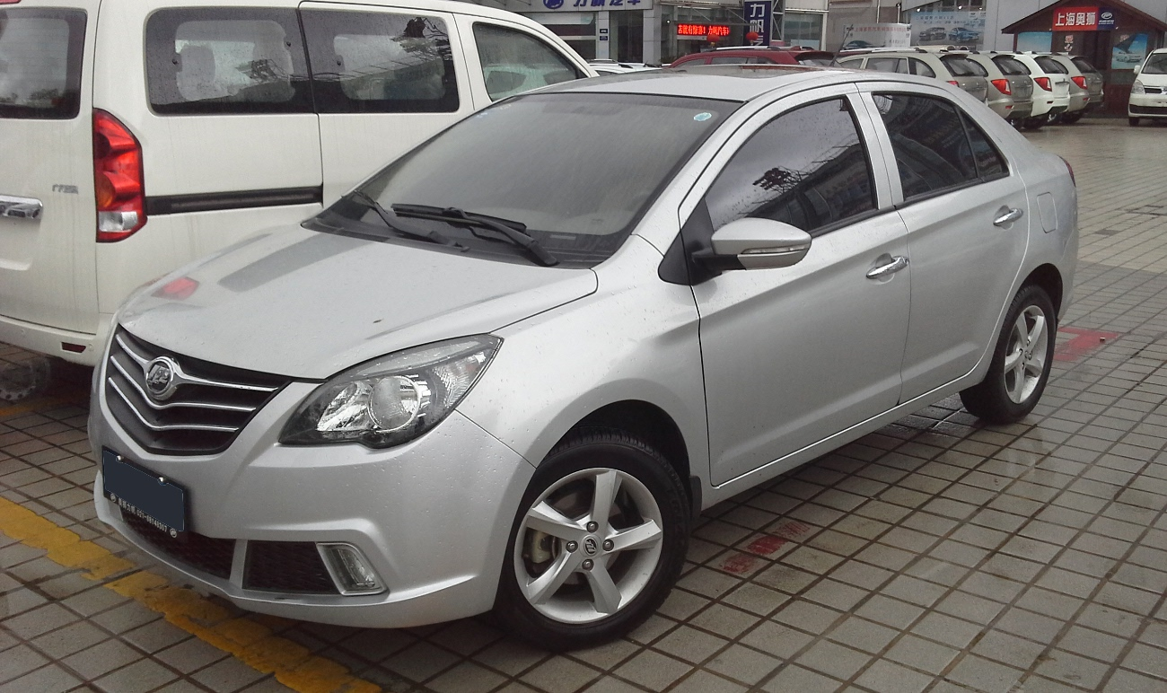 Lifan 530 photographed in Shanghai, China.